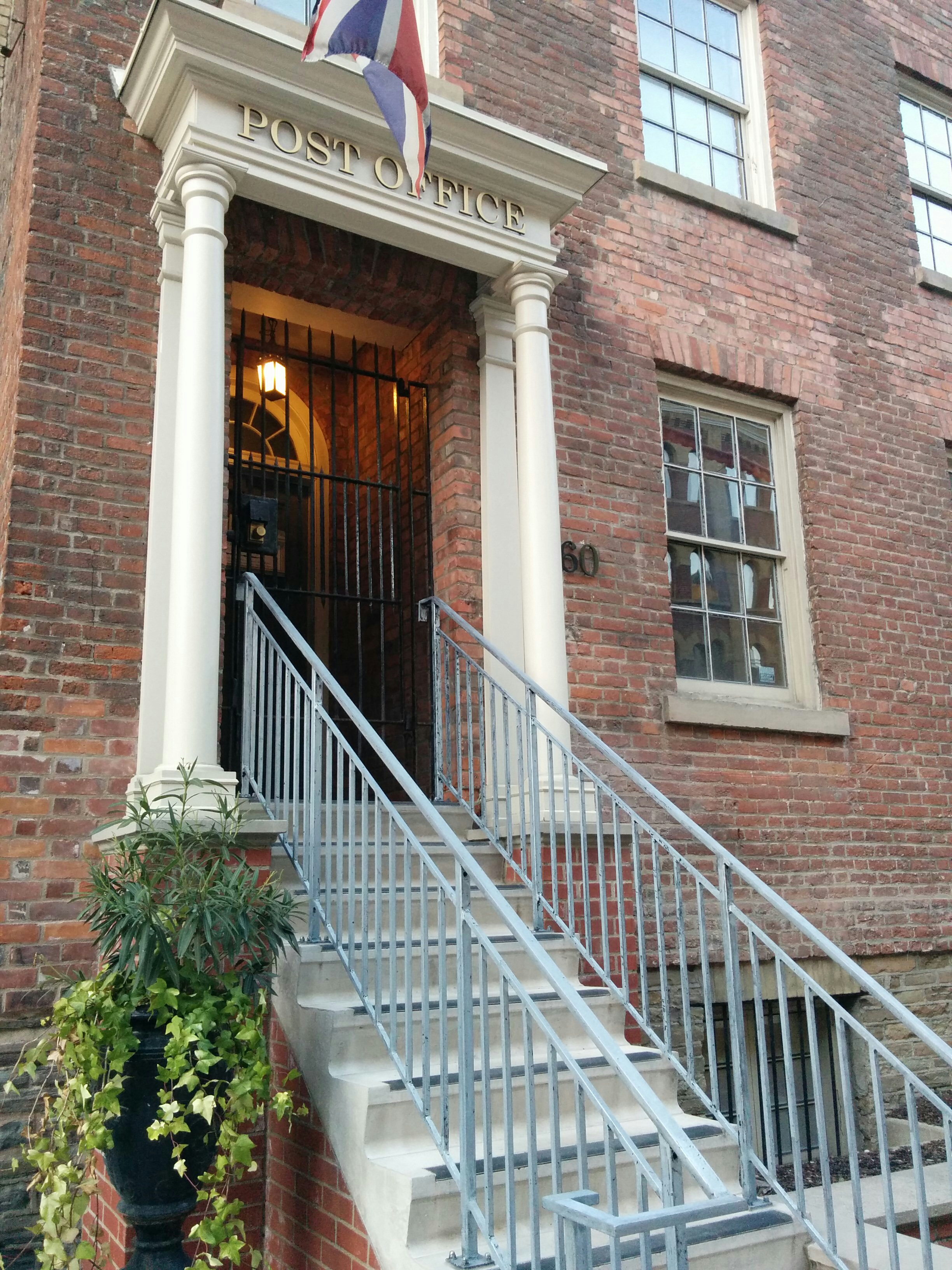 Toronto's first post office front door